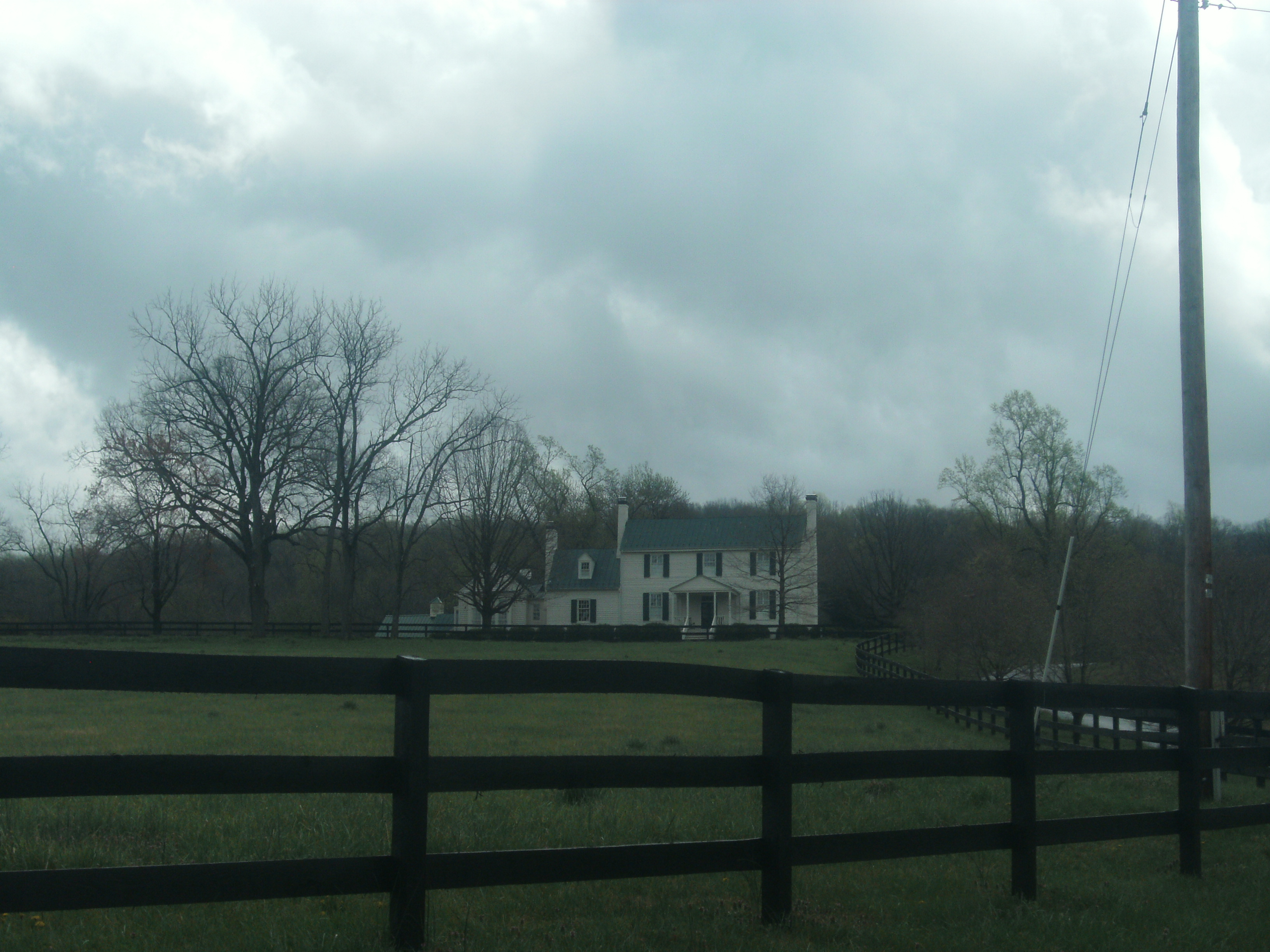 Greenwood